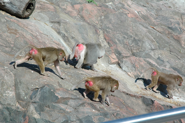 Baboons in Helsinki Zoo Photograph owned by Polarit